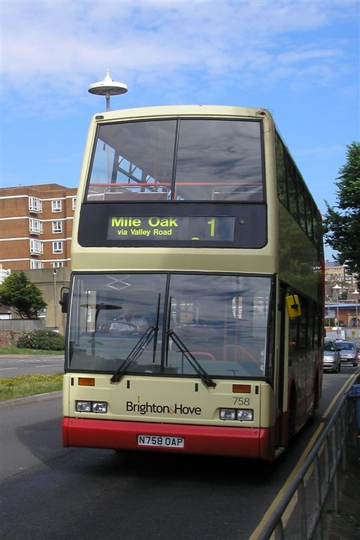 758, one of Brighton & Hove's Scania with East Lancs Cityzen body